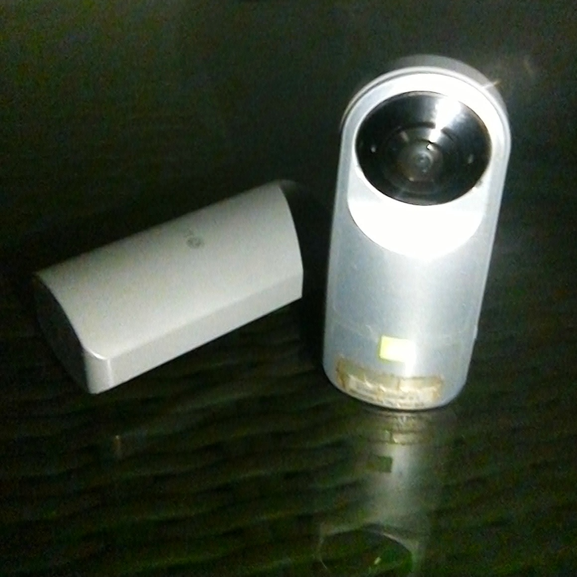 LG 360 Camera